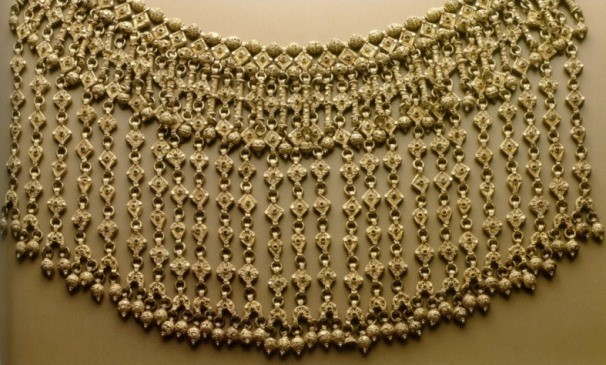 Great Necklace of the Jewesses of Sana'a, Yemen, late 19th century-early 20th century. Silver, gilt, filigree work, copyrighted by The Israel Museum, Jerusalem, and photographed by Pierre-Alain Ferrazzini